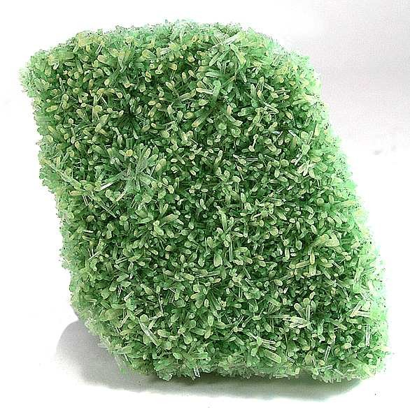 Gypsum Locality: Pernatty Lagoon, Mt Gunson, Stuart Shelf area, Andamooka Ranges - Lake Torrens area, South Australia, Australia (Locality at ) I am not sure what the inclusion is that turns the gypsum from this locality this beautiful light green (probably copper); at any rate, it looks like a carpet of beautiful spring grass! 8.5 x 7.4 x 1.8cm